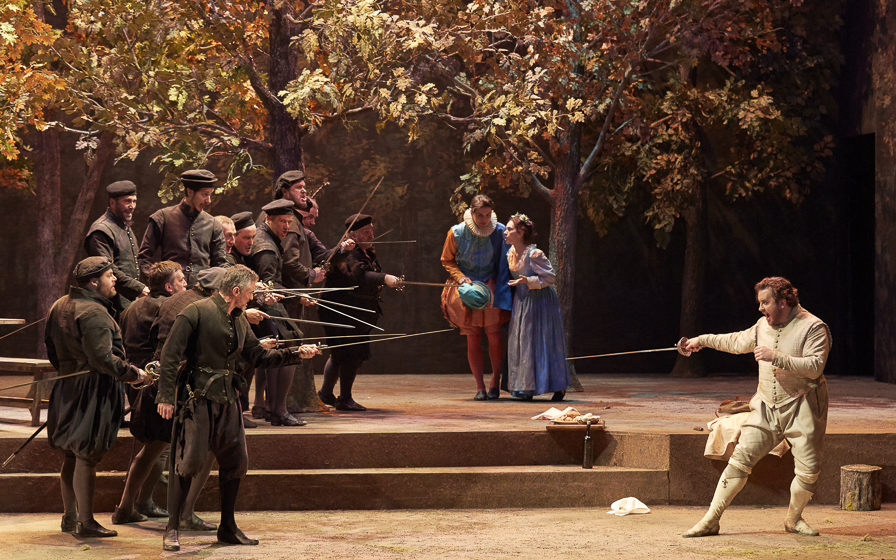 LE PRE AUX CLERCS opera-comique de Ferdinand Herold Production Opéra Comique 2015 Photo: Pierre Grosbois ( direction musicale, Paul McCreesh mise en scene et decors, Eric Ruf costumes, Renato Bianchi lumieres, Stephanie Daniel choregraphe, Glyslein Lefever collaboration artistique, Leonidas Strapatsakis assistant a la mise en scene, Laurent Delvert assistant musical, Claire Levacher assistant decors, Dominique Schmitt assistants costumes, Sara Sablic, Camille Lamy chef de chant, Marine Thoreau la Salle chef de choeur, Christophe Grapperon stagiaires a la mise en scene, Marcus Vinicius Borja, Emi Ferreli Marguerite de Valois, Marie Lenormand Isabelle de Montal, Marie-Eve Munger Nicette, Jael Azzaretti Baron de Mergy, Michael Spyres Marquis de Comminge, Emiliano Gonzalez Toro Cantarelli, Eric Huchet Girot, Christian Helmer Le brigadier, Olivier Dejean * L'exempt du guet, Gregoire Fohet-Duminil * Les archets, Thomas Roullon et Jean-Christophe Jacques * danseurs, Anna Konopska, Camille Brulais, Anna Beghelli, Paul Canestraro, Andrea Condorelli, Clement Ledisquay Choeur, accentus (*) membres du choeur accentus Orchestre Gulbenkian